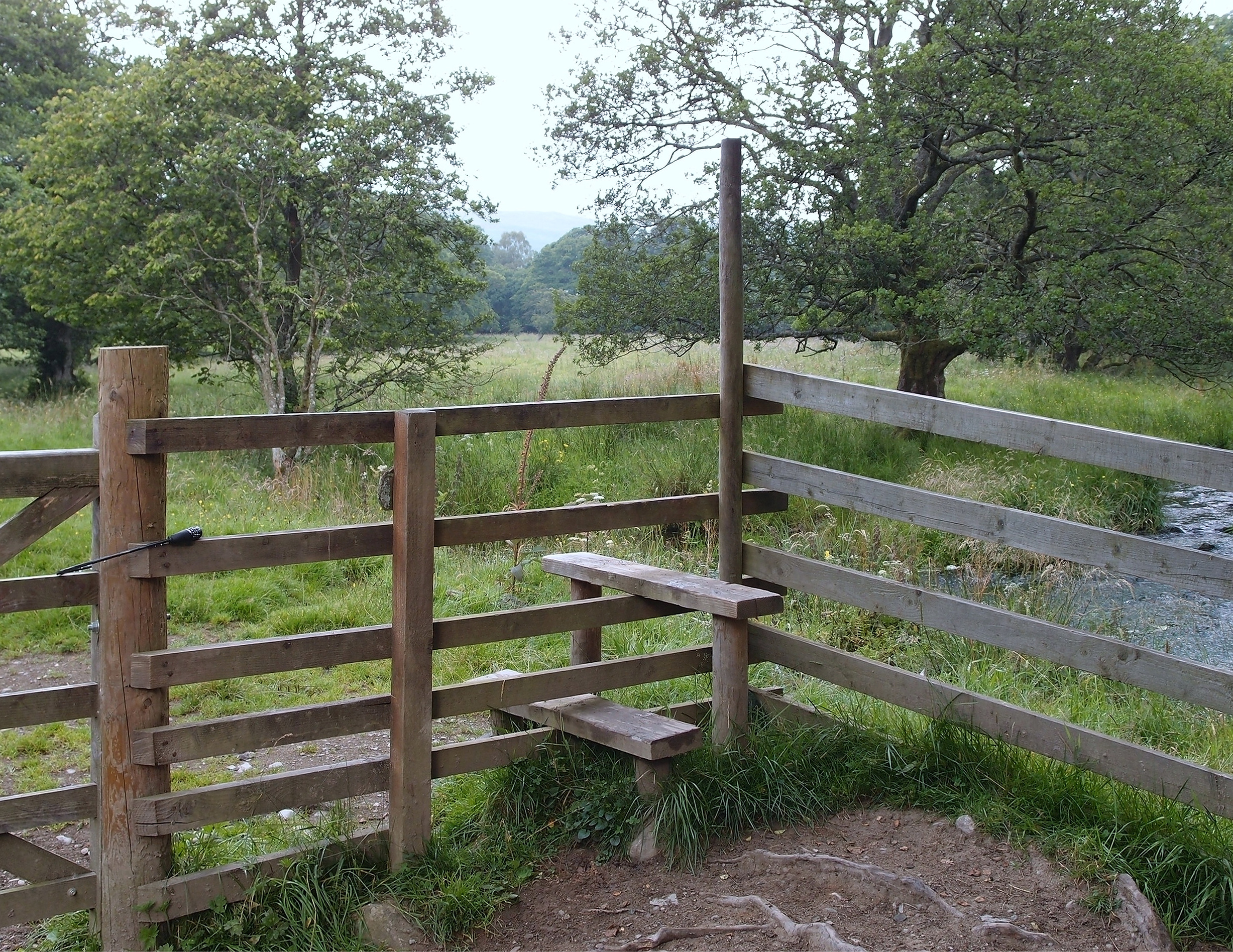 Two-step stile in northern England